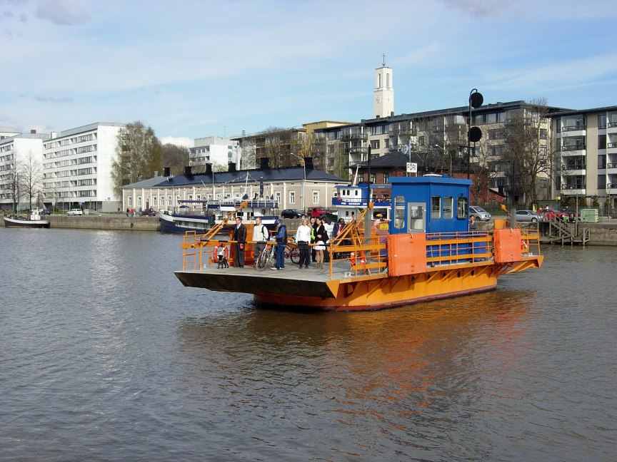 Föri of Turku on its way from Åbo to Turku.